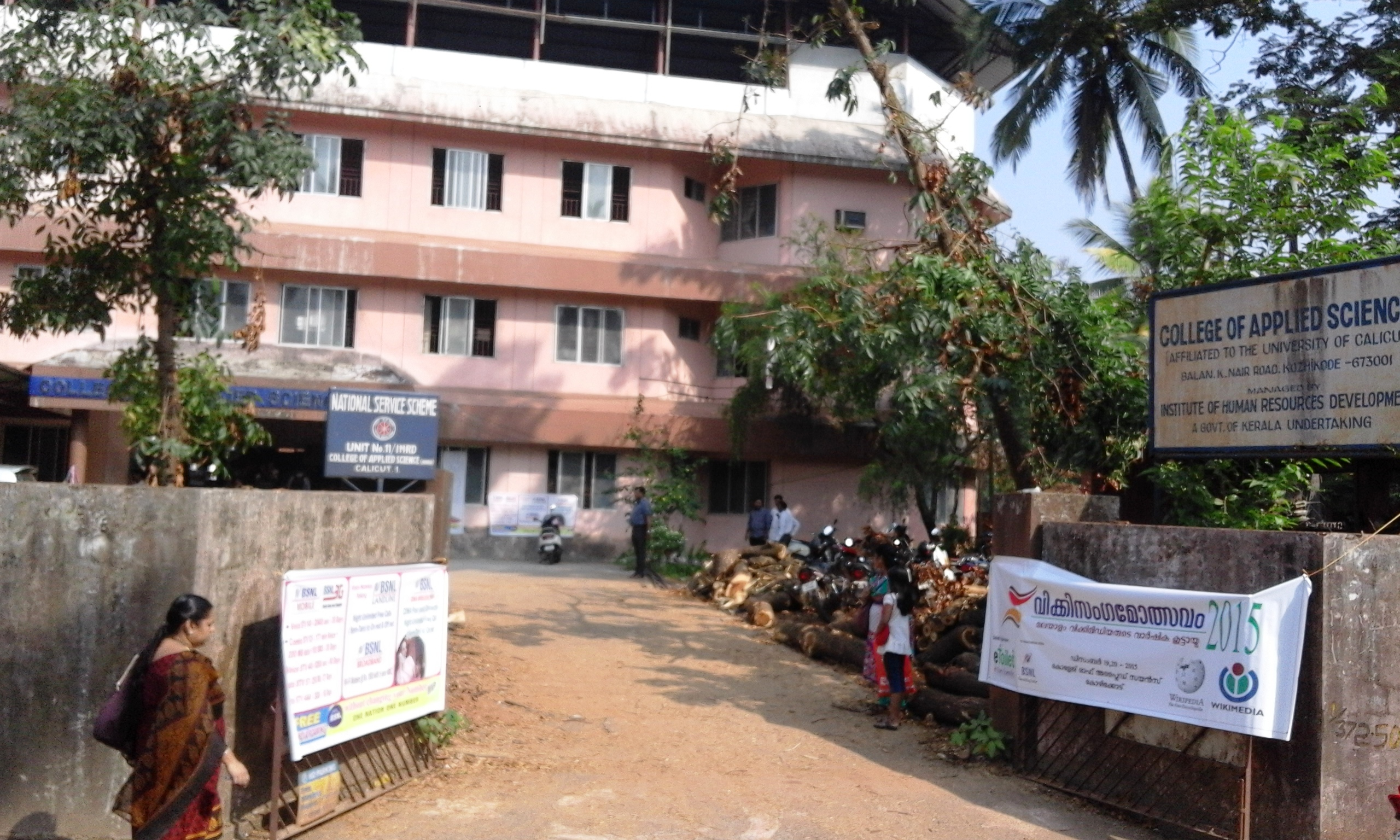 IHRD College of Applied Sciences, Ashokapuram, Kozhikode